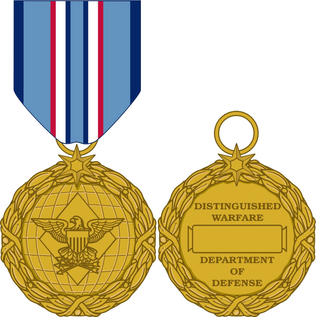 Distinguished Warfare Medal, obverse and reverse